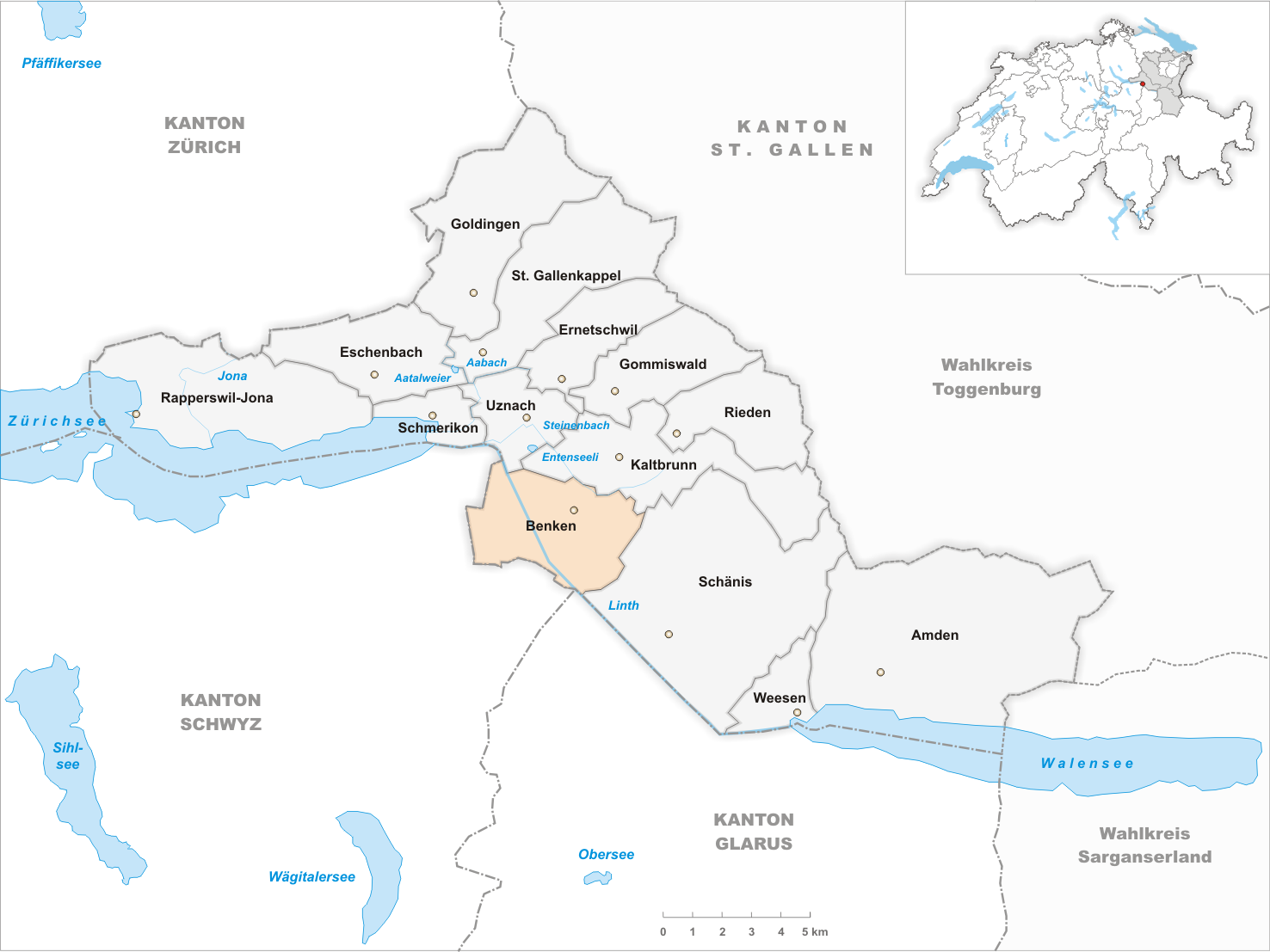 Municipality Benken